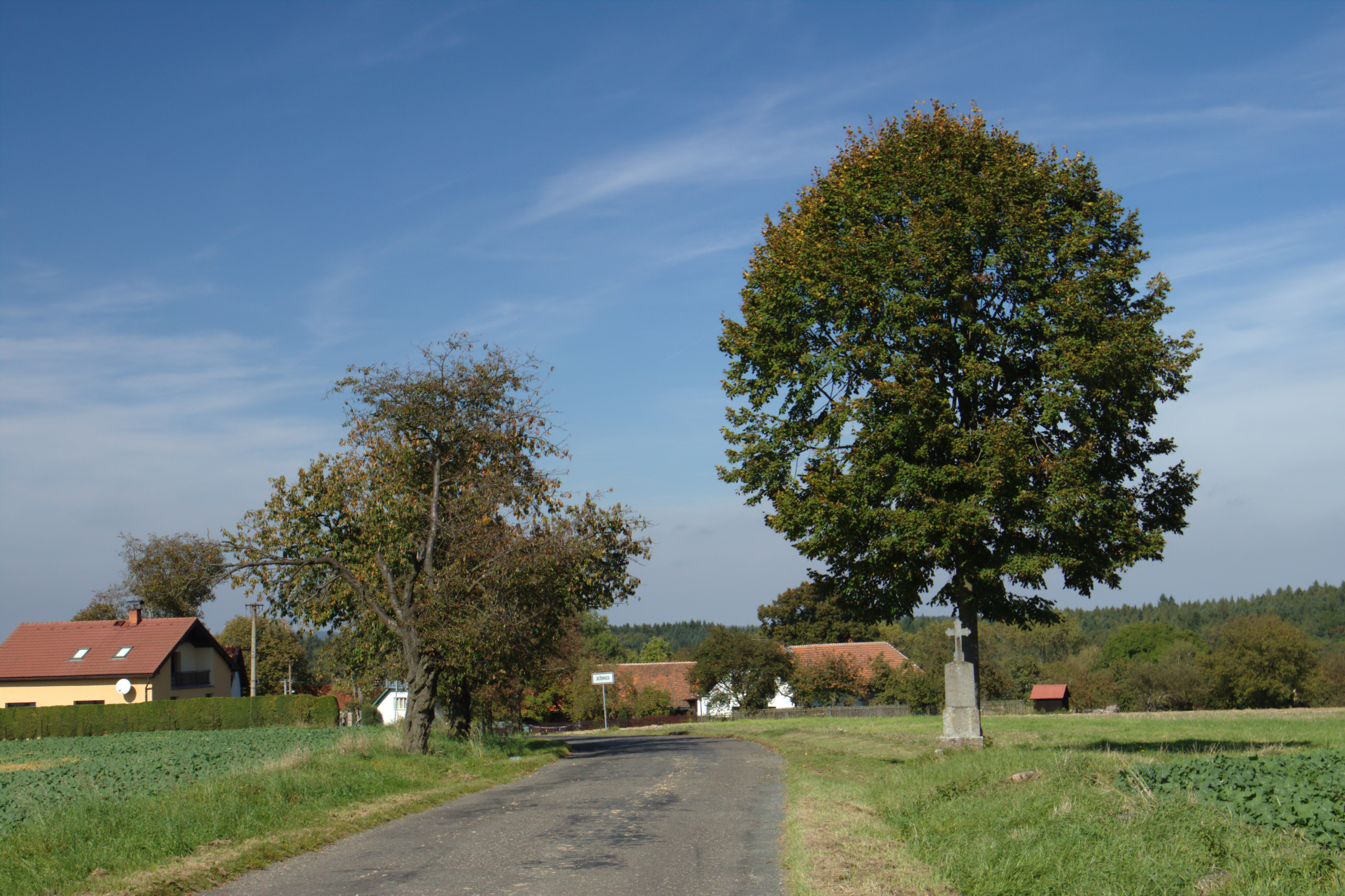 Southern edge of the Ježovice village near Podveky, Central Bohemia